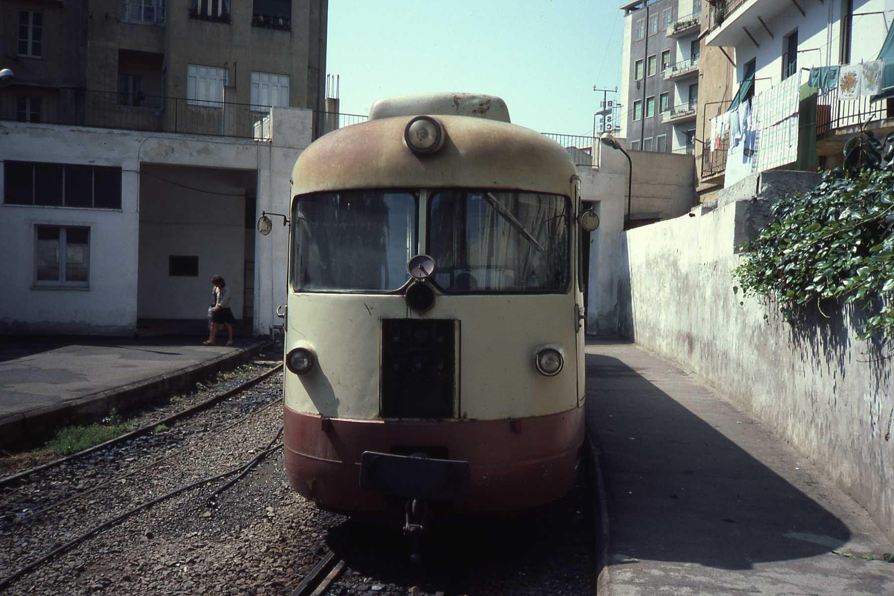 Starting point in Cagliari of the smalltrack railway with a railcar in 1984. Taken at the station "Piazza Repubblica". This part of the system now converted to a tramway.